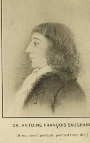 Dr. Antoine François Pierre Saugrain (Paris, 17 February 1763 France – St. Louis, Missouri, 5 March 1820) , French-born physician and chemist.